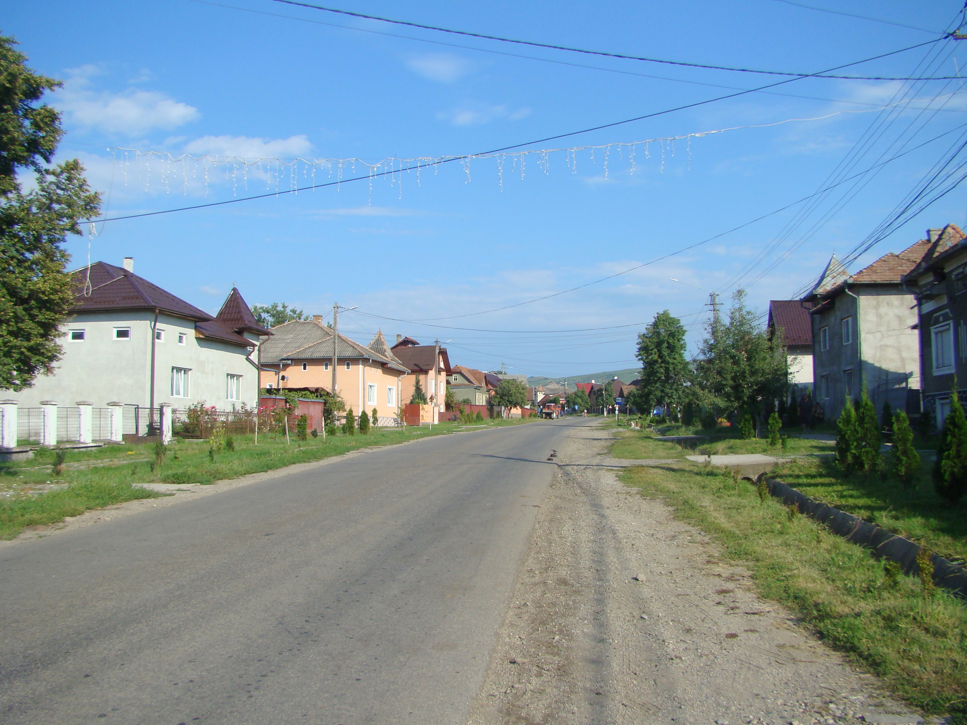 Ragla, Bistrița-Năsăud county, Romania